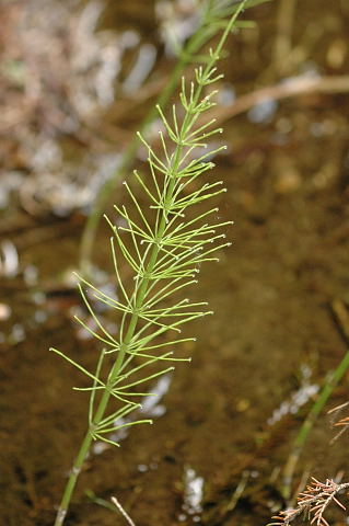 Picture taken in Commanster, Belgian High Ardennes . Species: Equisetum palustre